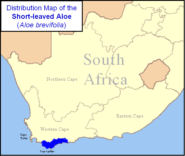 Distribution map of the species Aloe brevifolia. Rare and vulnerable Dwarf Aloe of South Africa. Map created with info from common knowledge and free public resources.